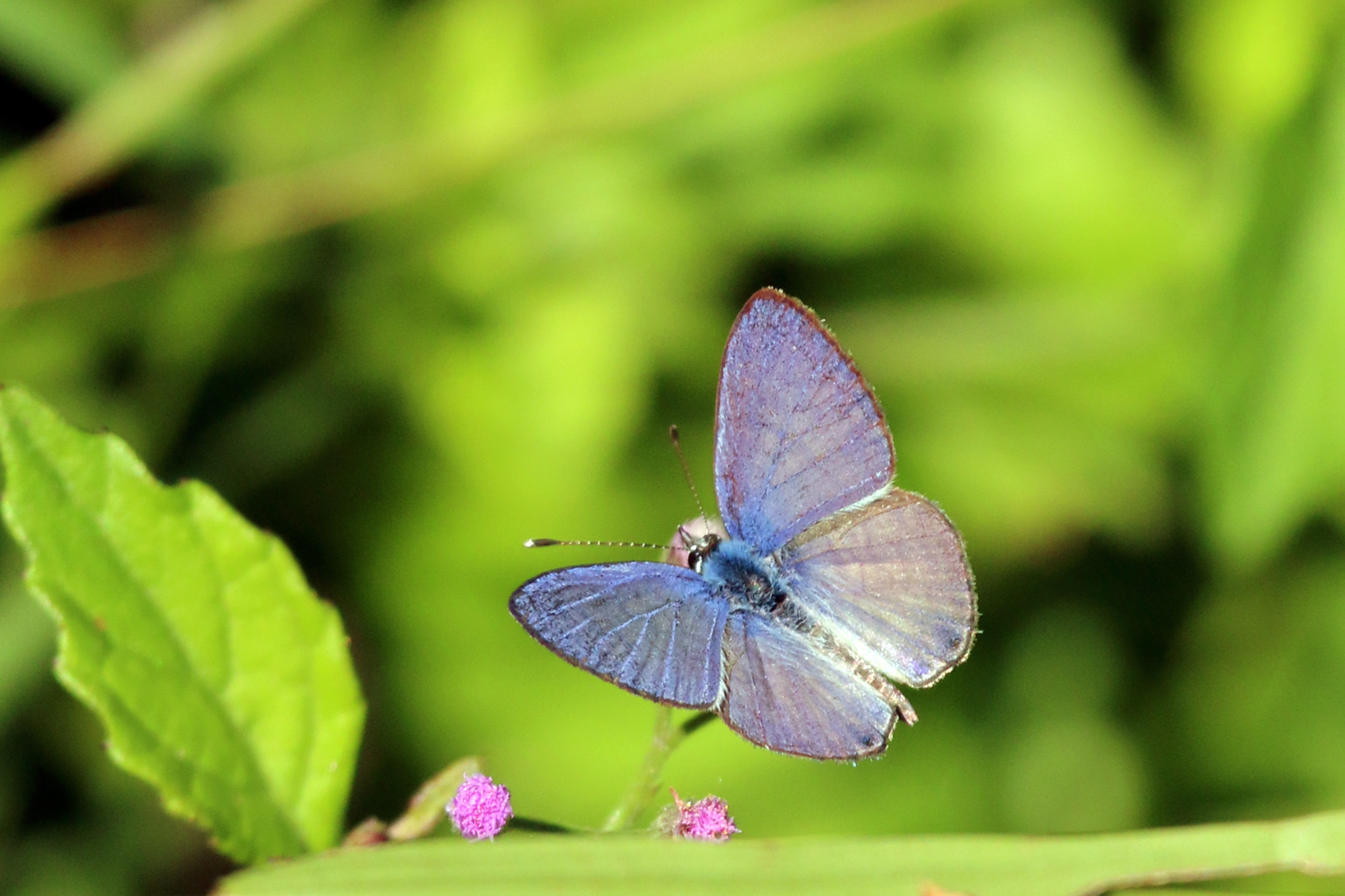 Cassius blue butterfly (Leptotes cassius theonus) male in Jamaica